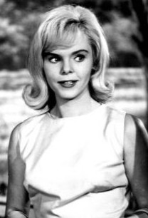 Photo of Christine White as cast regular Abby Adams (left) and guest star Jenny Maxwell from the television program Ichabod and Me.